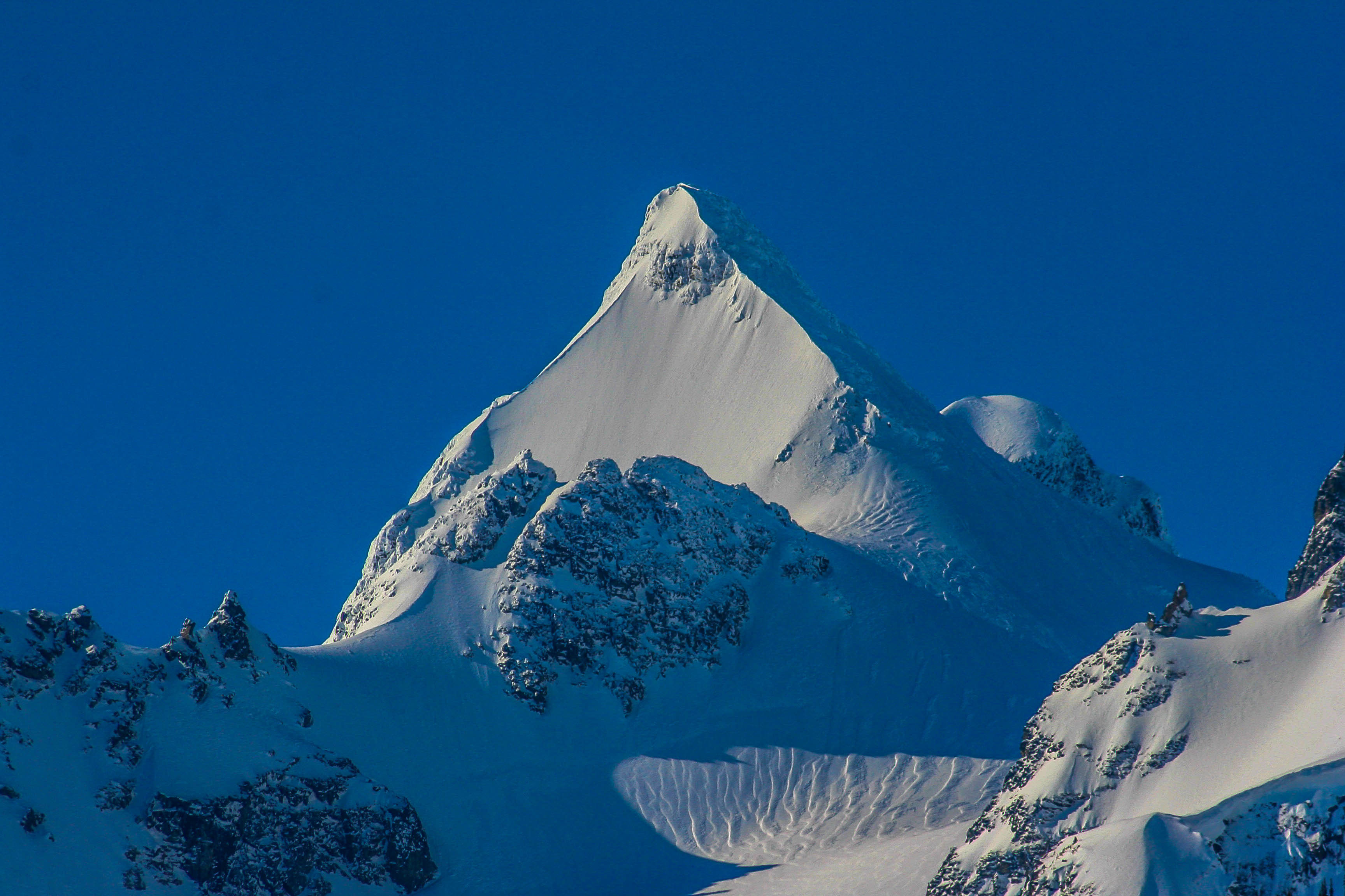 Mt Matier (2783m) in the Coast Mountains